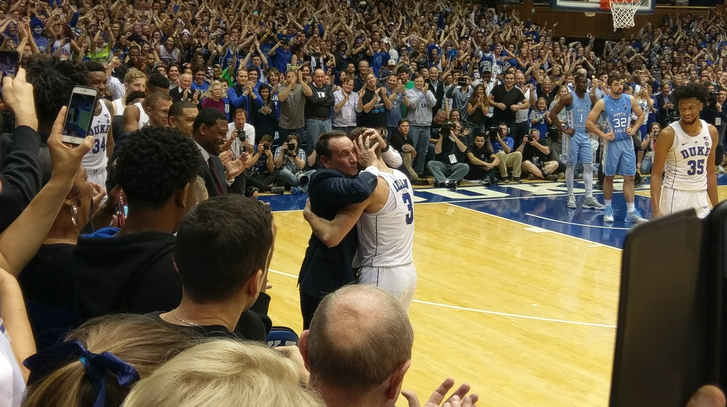 Duke Blue Devils men's basketball coach Mike Krzyzewski embraces Duke senior Grayson Allen as he is substituted out for the last time at the end of his final home game as a college basketball player. The game was North Carolina at Duke in Cameron Indoor Stadium on March 3, 2018, for the final game of both teams' 2017–18 regular season.